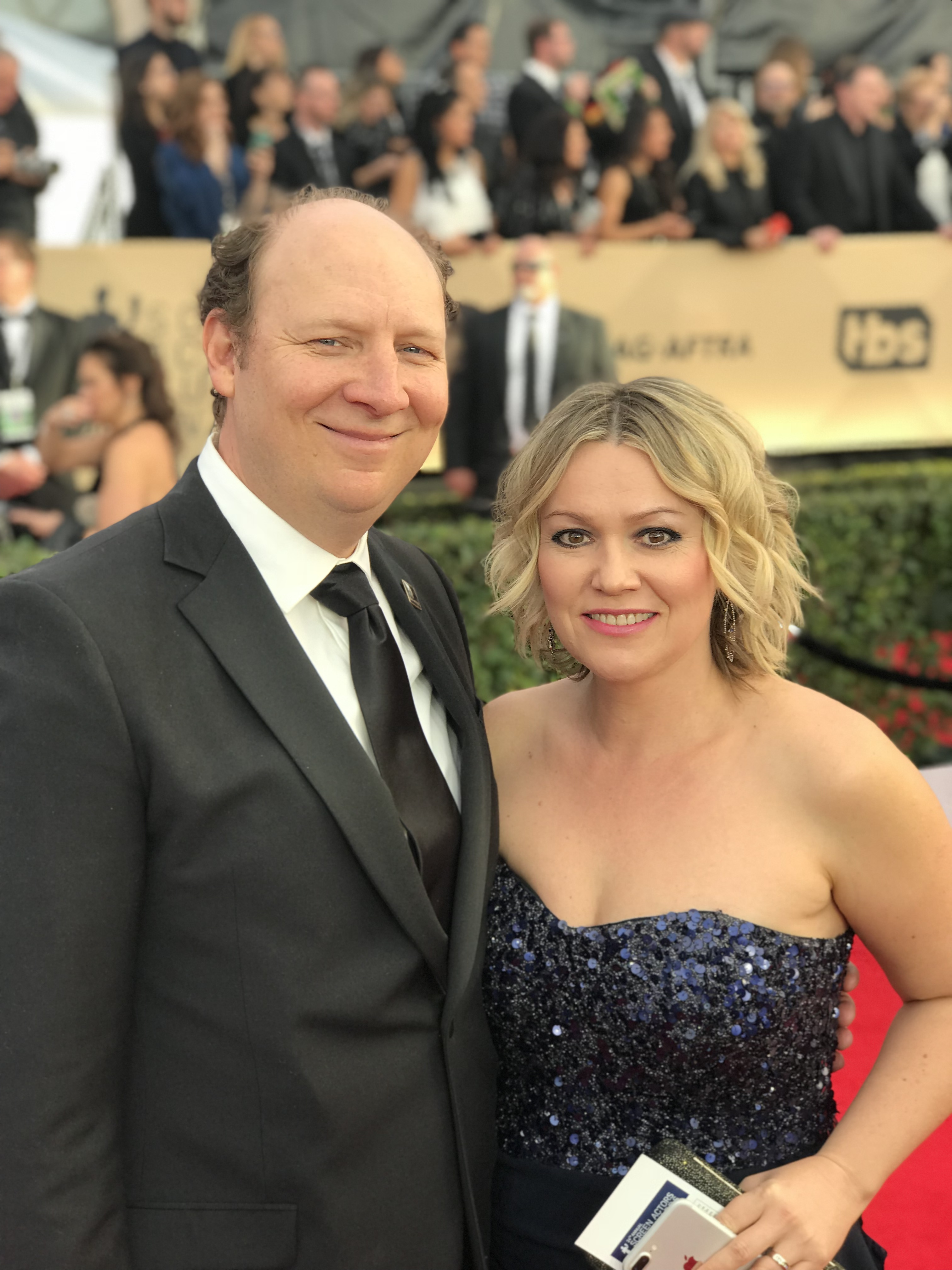 Dan Bakkedahl and his wife Irene 24th Screen Actors Guild Awards